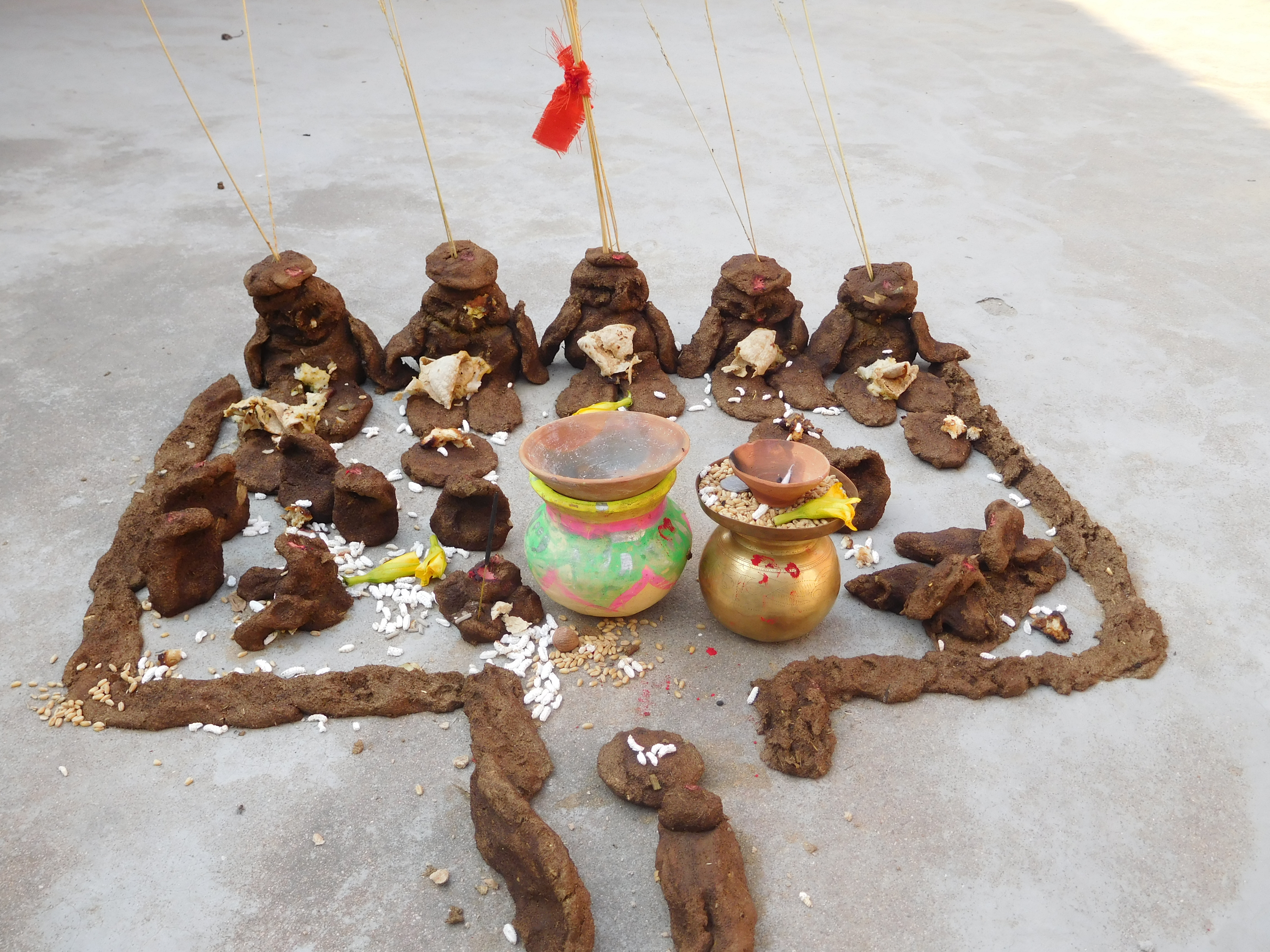 A Scene of Govardhan Puja